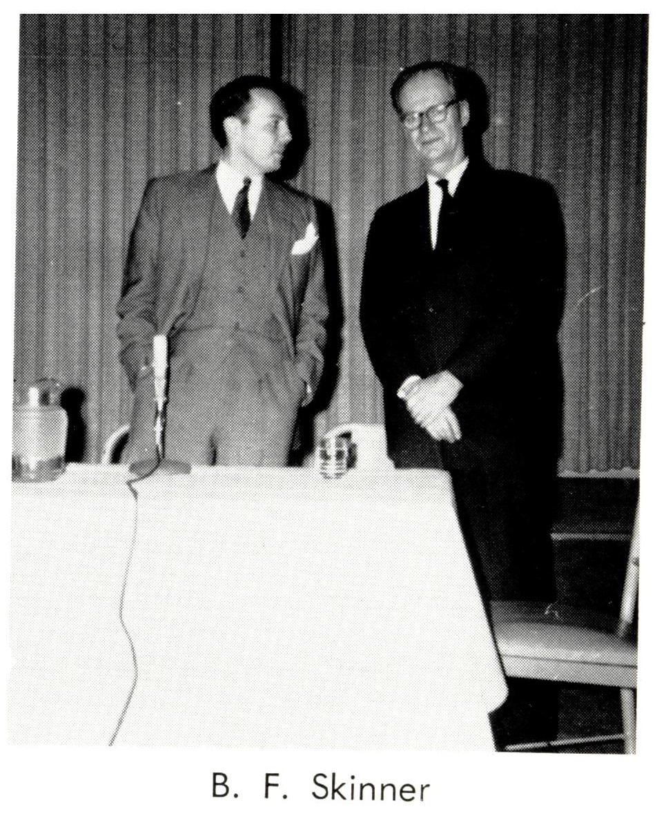 B.F. Skinner and Lausanne headmaster Walter Coppedge in 1964